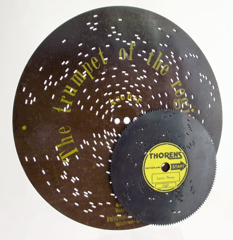 Music Box discs, 8 for playback on music box players